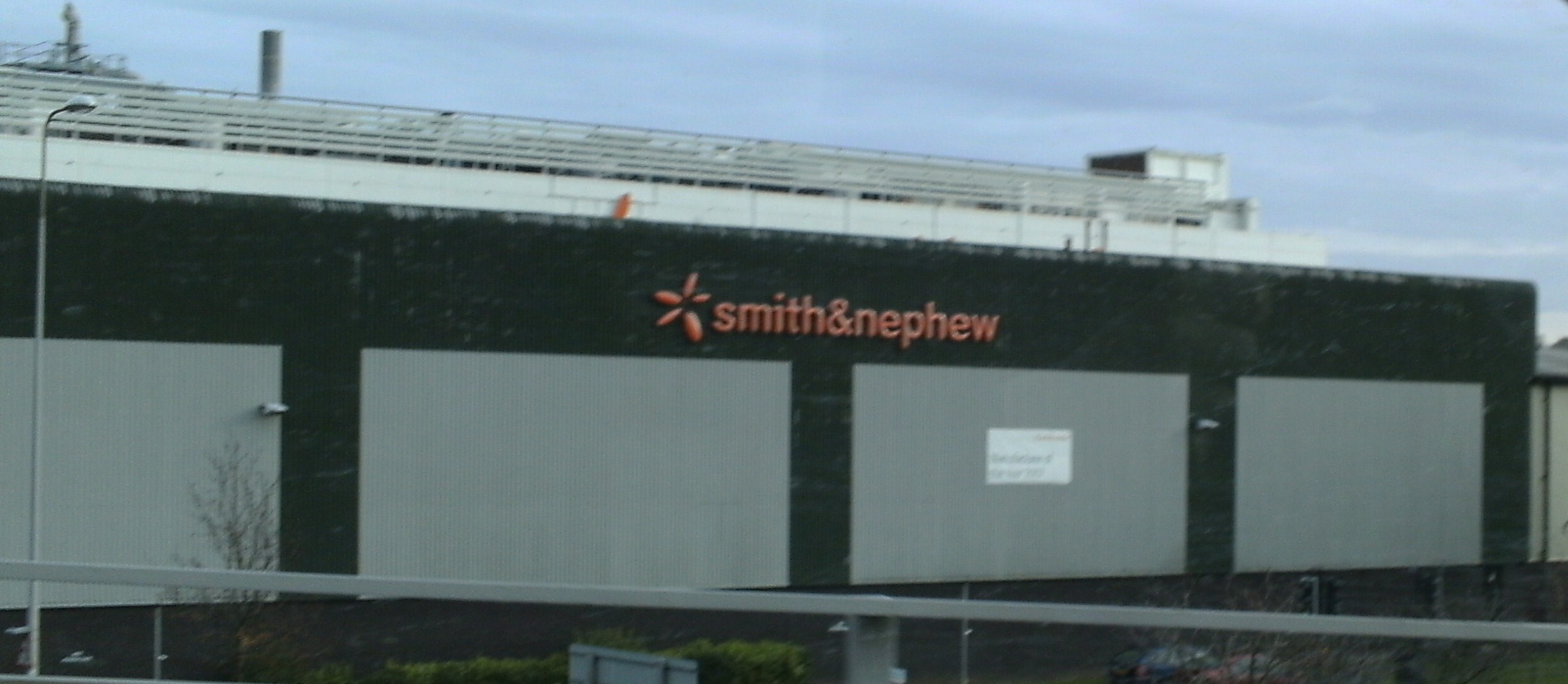 Smith and Nephew Factory from the A63, Kingston Upon Hull, East Riding of Yorkshire, UK